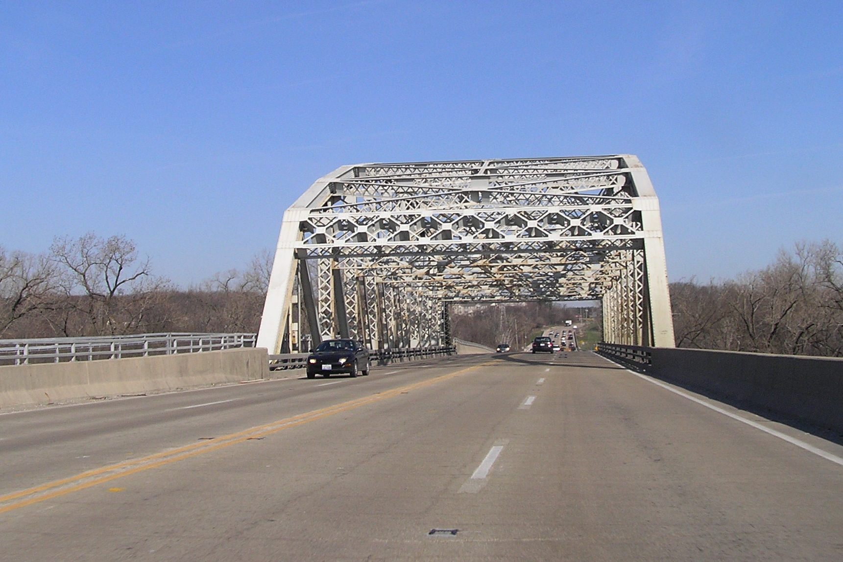 I am the author of this work.